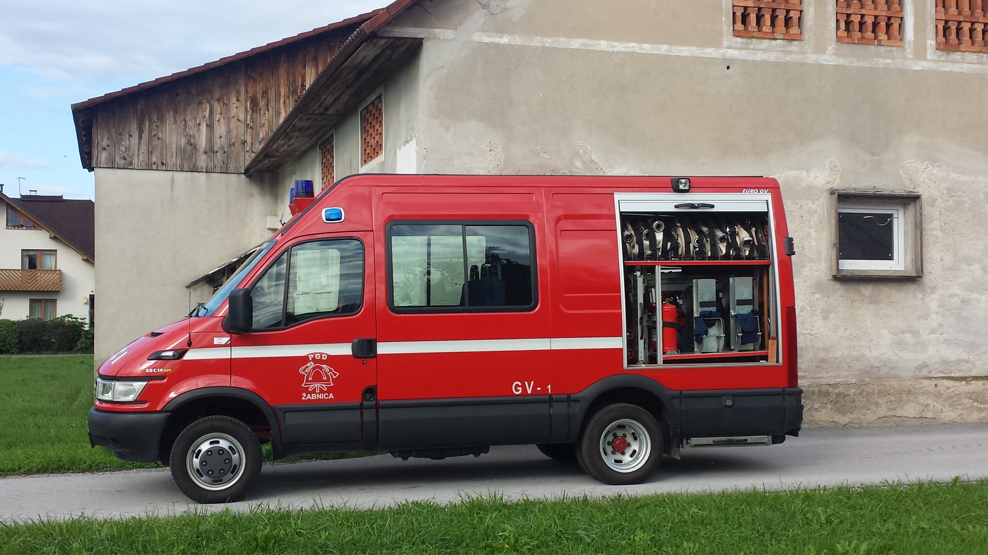 fire vehicle